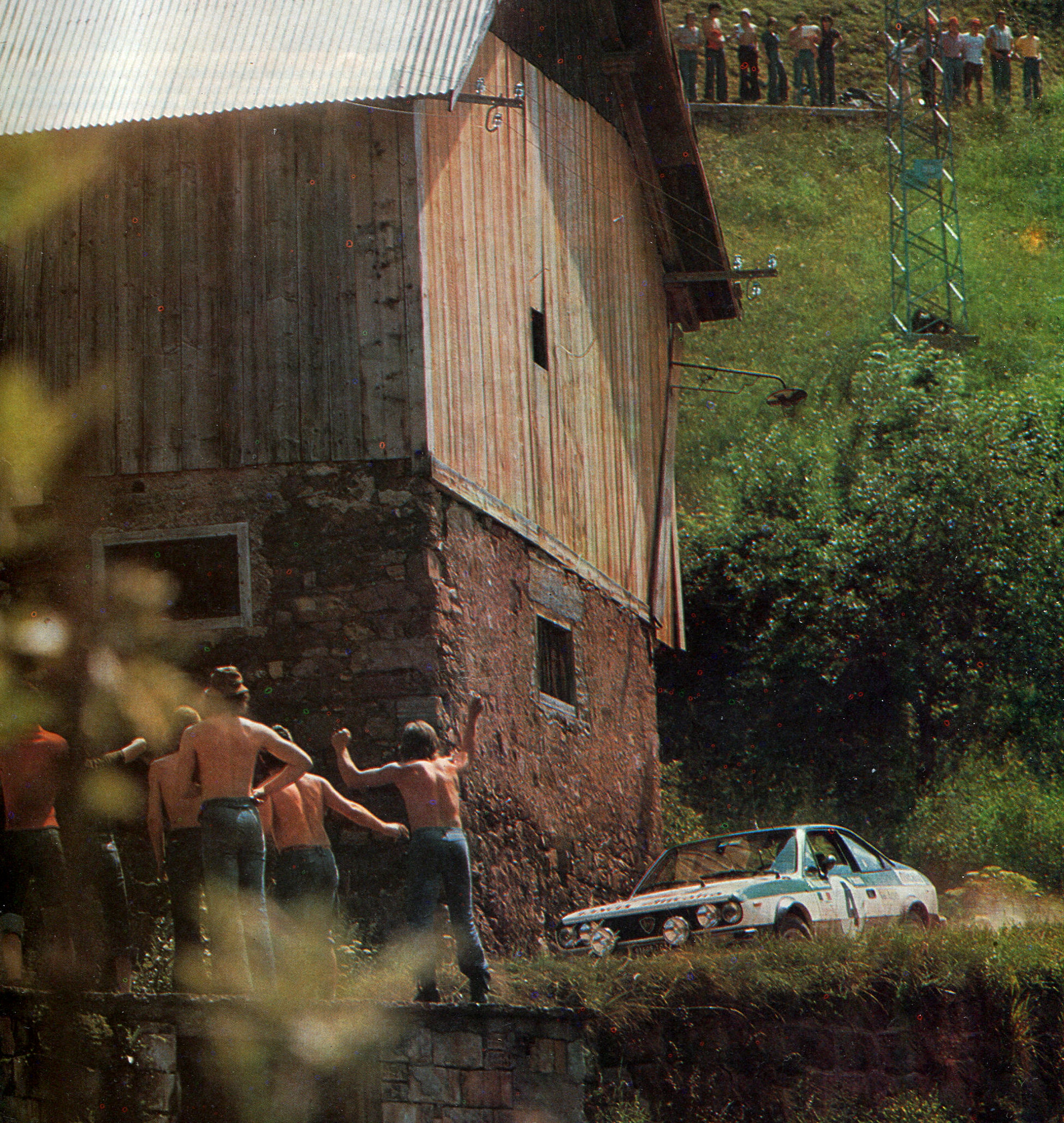 Friuli-Venezia Giulia (Italy), end of June 1975. Italian rally driver Mauro Pregliasco and his co-driver Piero Sodano on a Lancia Beta Coupé sponsored Alitalia at the 1975 Rallye Eastern Alps.